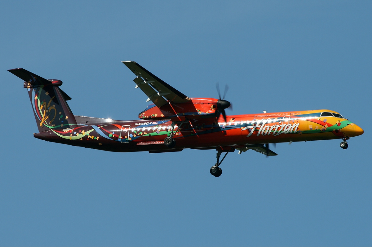 Horizon Air De Havilland Canada DHC-8-401Q Dash 8 in 25th anniversary livery